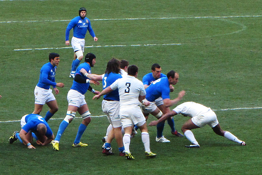 Italy's captain Sergio Parisse being tackled during the first match of 2012 Six Nations championship, France vs Italy at Stade de France in Paris